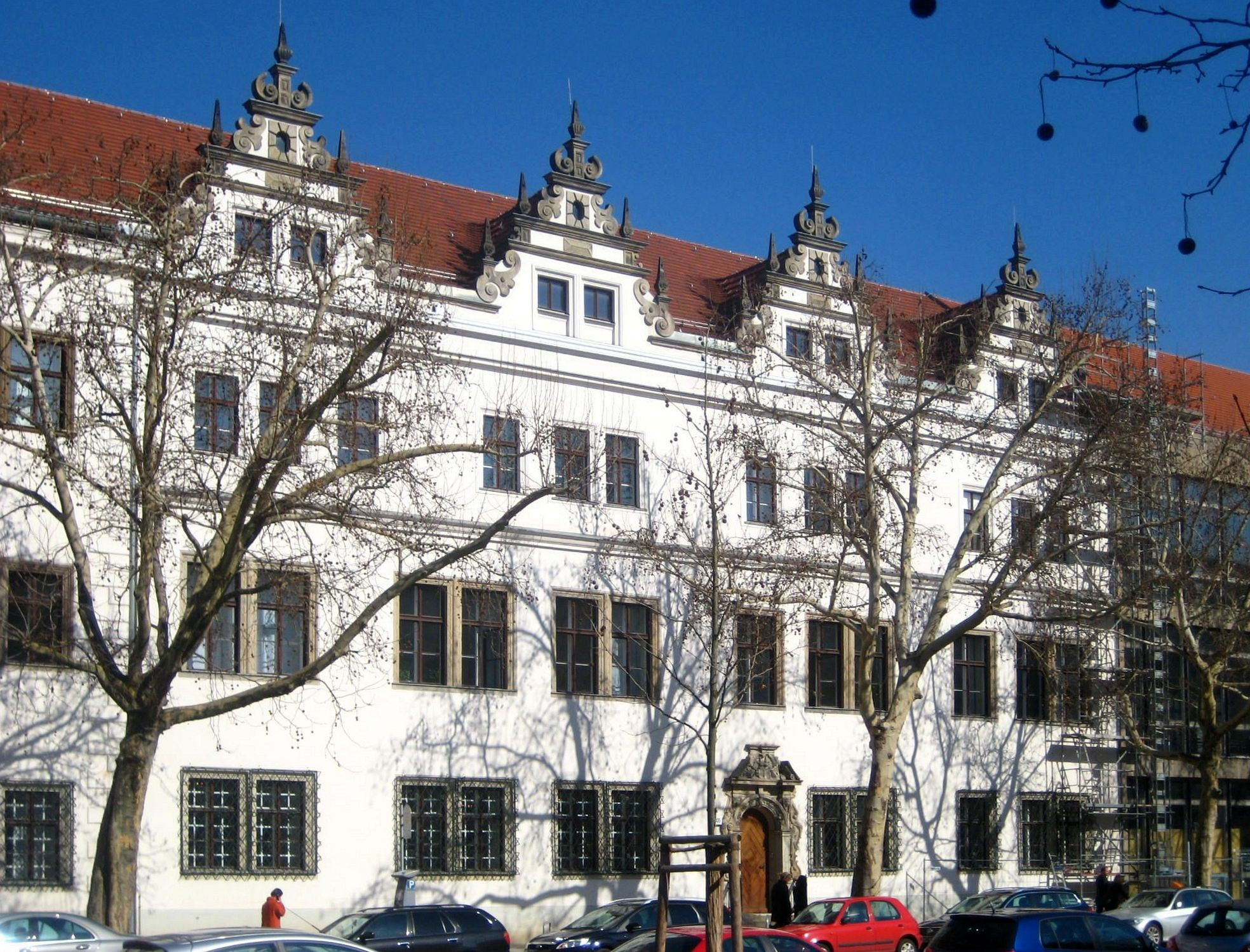 The Ribbeck-Haus at Breite Straße No. 35 in Berlin-Mitte. The Renaissance building was constructed in 1624 for Hans Georg von Ribbeck, a valet de chambre at the court of the Elector of Brandenburg. It has been altered several times since. The Ribbeck-Haus has been designated as a historic landmark.